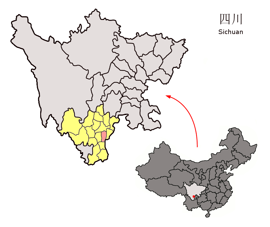 Location of Butuo County (pink) and Liangshan Prefecture (yellow) within Sichuan province of China Map drawn in september 2007 using various sources, mainly : Sichuan province administrative regions GIS data: 1:1M, County level, 1990 Sichuan Counties map from